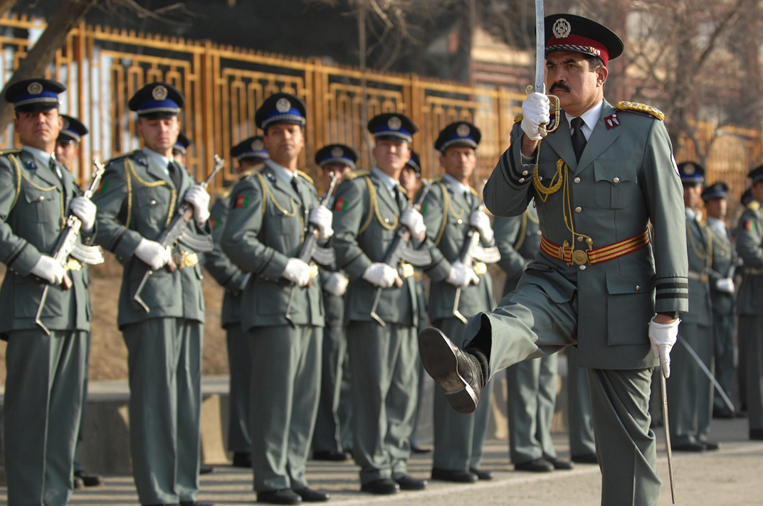 The Afghan national police commander marches to greet distinguished visitors at the graduation of Afghan National Police Academy cadets. Upon graduating the three year course, cadets become ANP officers and earn a degree in criminal justice. The academy trains men and women from more than 34 provinces. (U.S. Air Force photo by Senior Airman Brian Ybarbo/RELEASED)